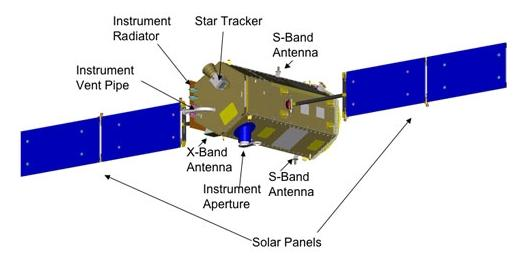 Illustration of the deployed OCO (Orbiting Carbon Observatory) spacecraft (image credit: NASA)